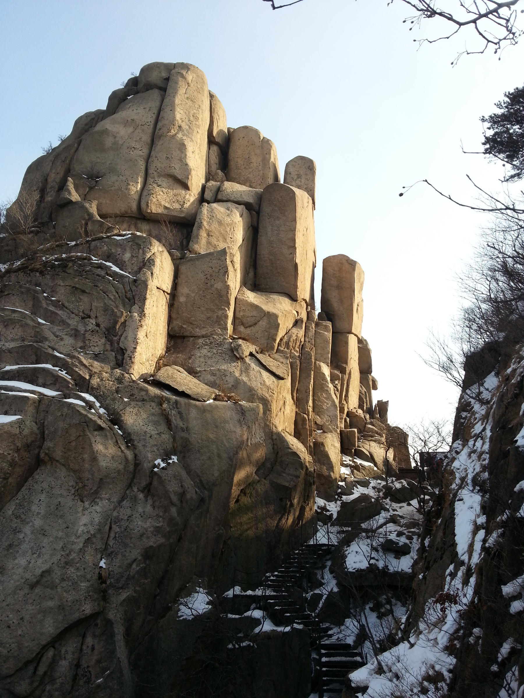 A mountain peak. Bukhansan National Park. South Korea.